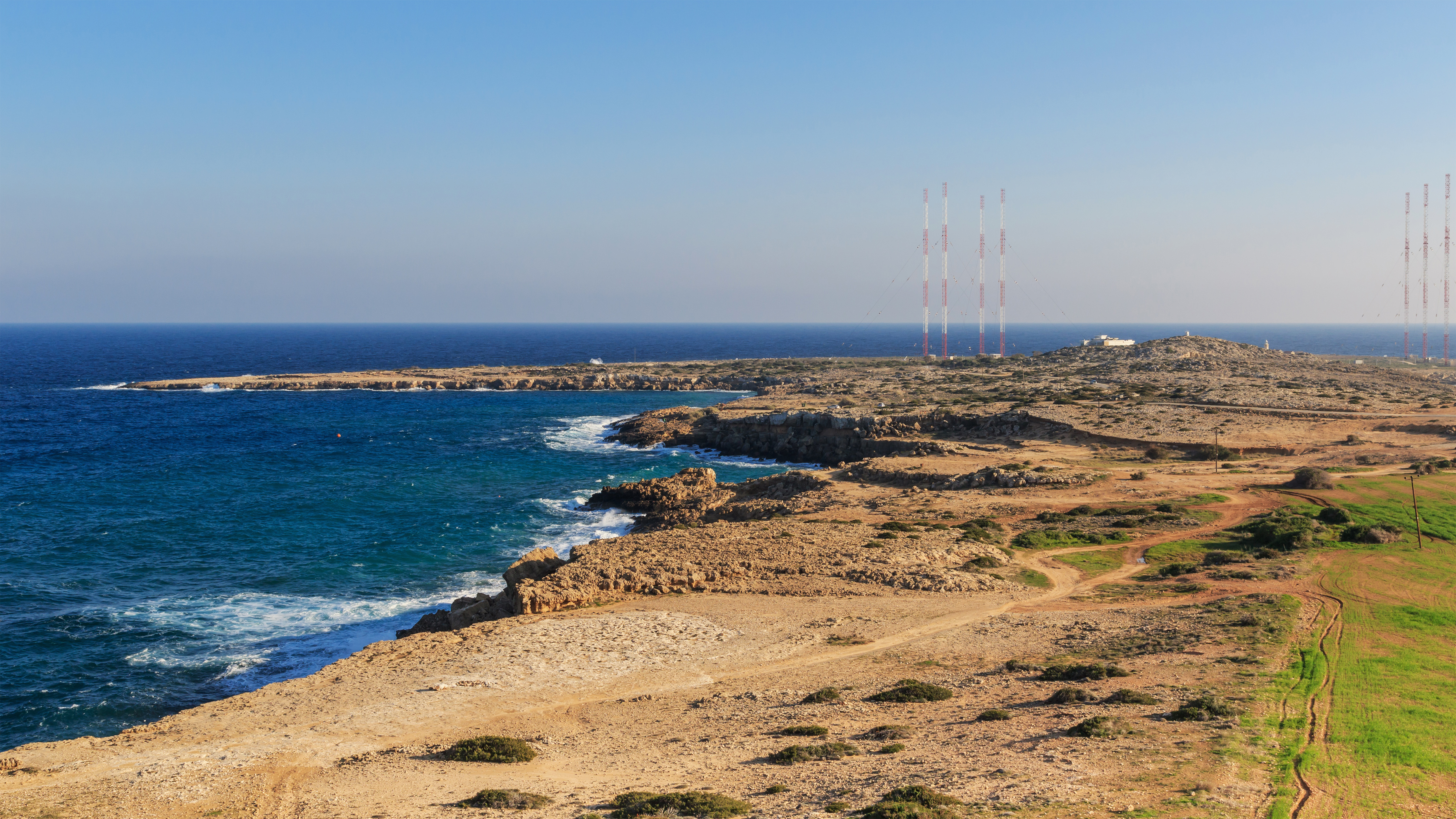 View of Cape Greco near Paralimni, Cyprus